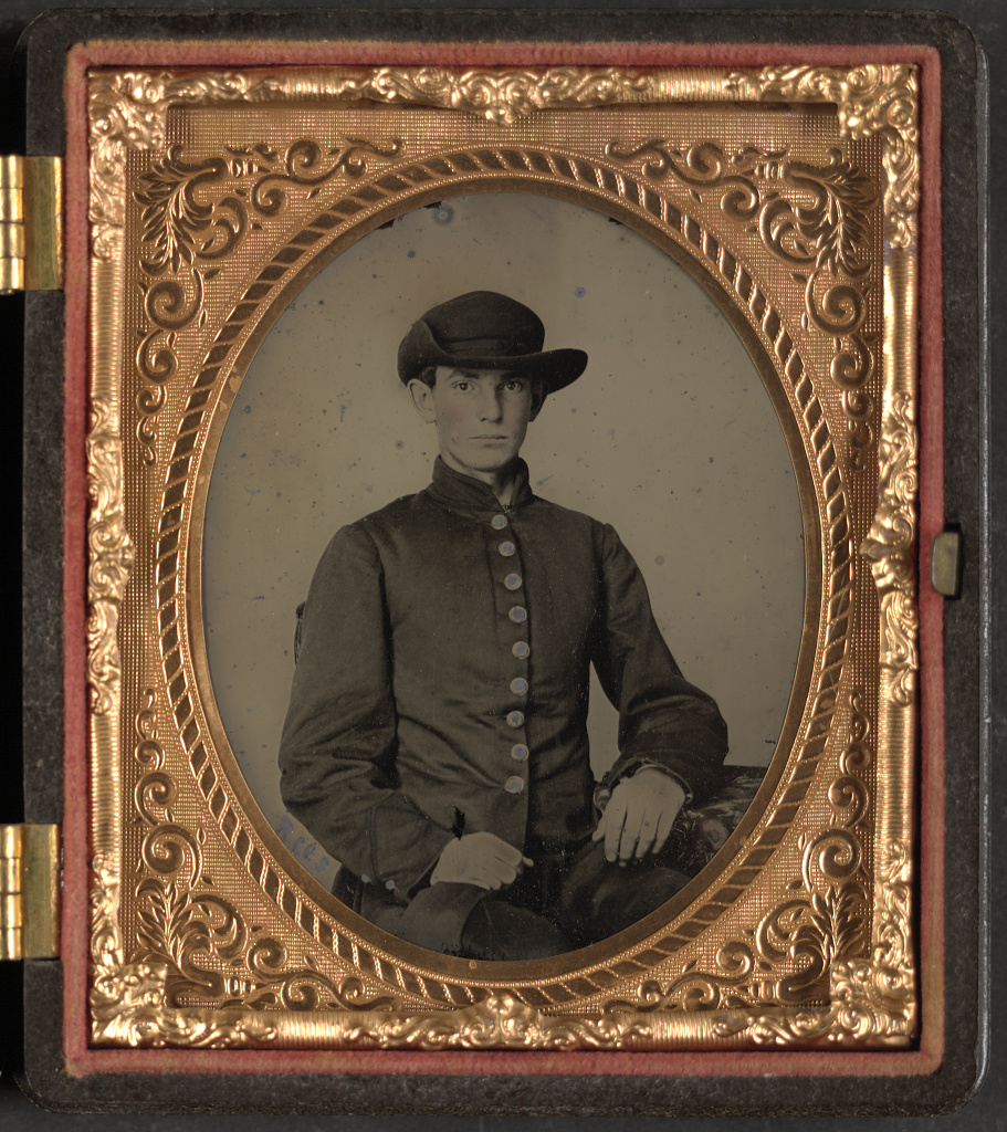 Title: Trooper Robert Vaughan of Co. I, 3rd Virginia Cavalry Regiment in uniform] / Rees Abstract/medium: 1 photograph : hand-colored ambrotype ; plate 82 x 70 mm (sixth plate format), case 94 x 84 mm.